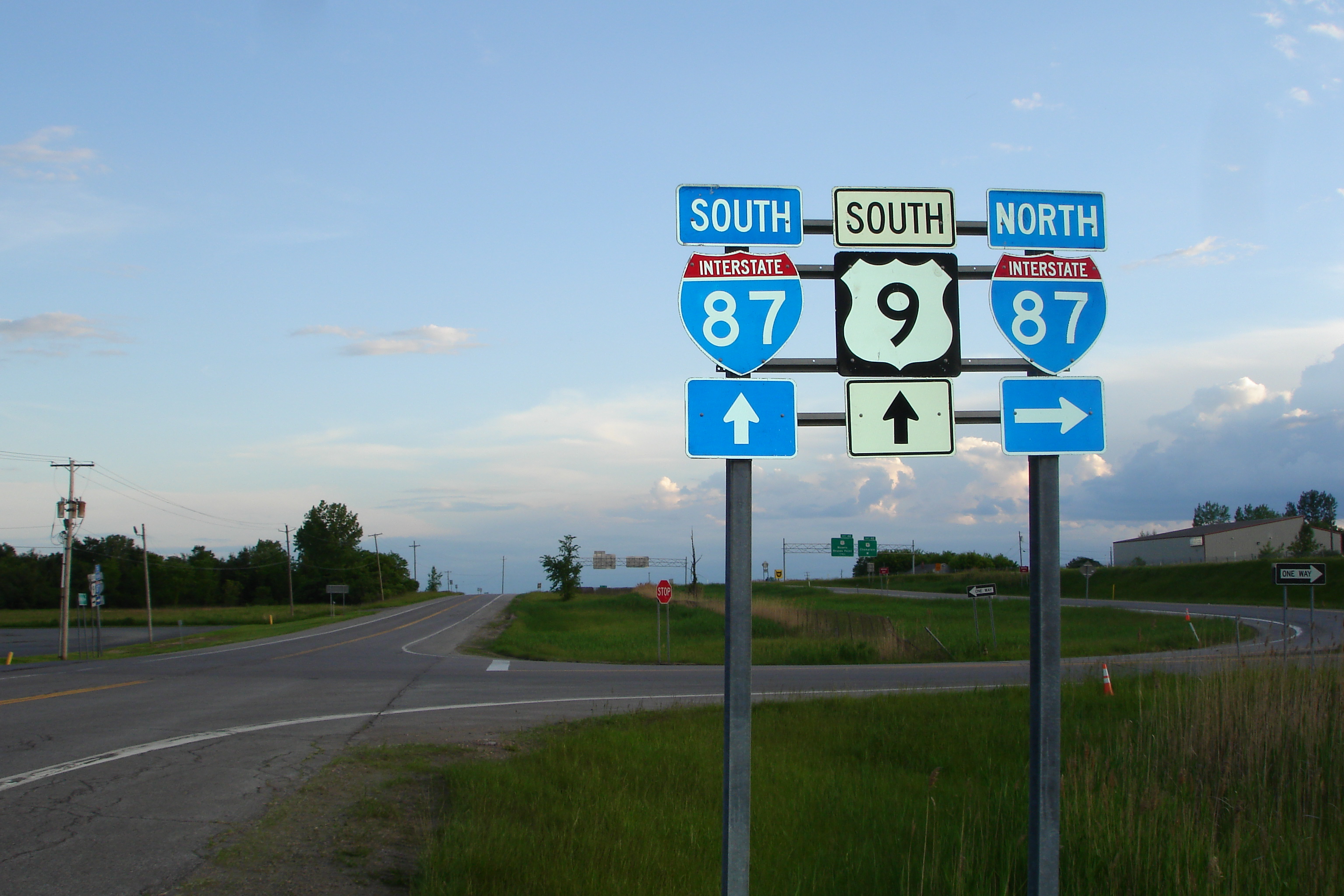 First Northern US 9 and I87 Reassurance Marker facing southbound.